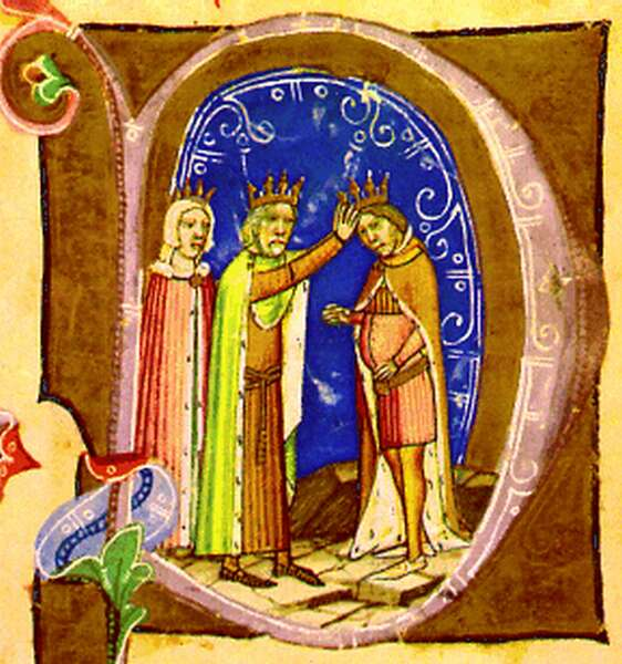 This picture shows the coronation of Steven V of Hungary.